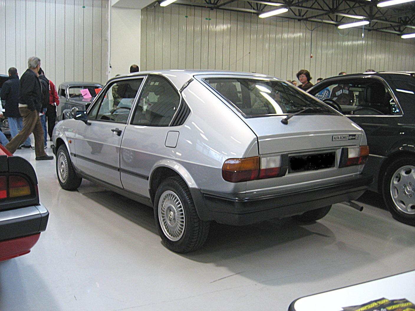 Subject:Alfa Romeo Alfasud Mk2 Author:Luc106 Date:March 15th, 2007 Event:Old Timer Show 2008 Place/Country: Forlì, Italy I release all rights in the public domain.